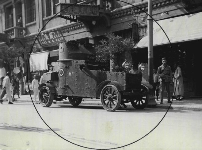 Armoured car in the streets of the French concession during the 1928 troubles.